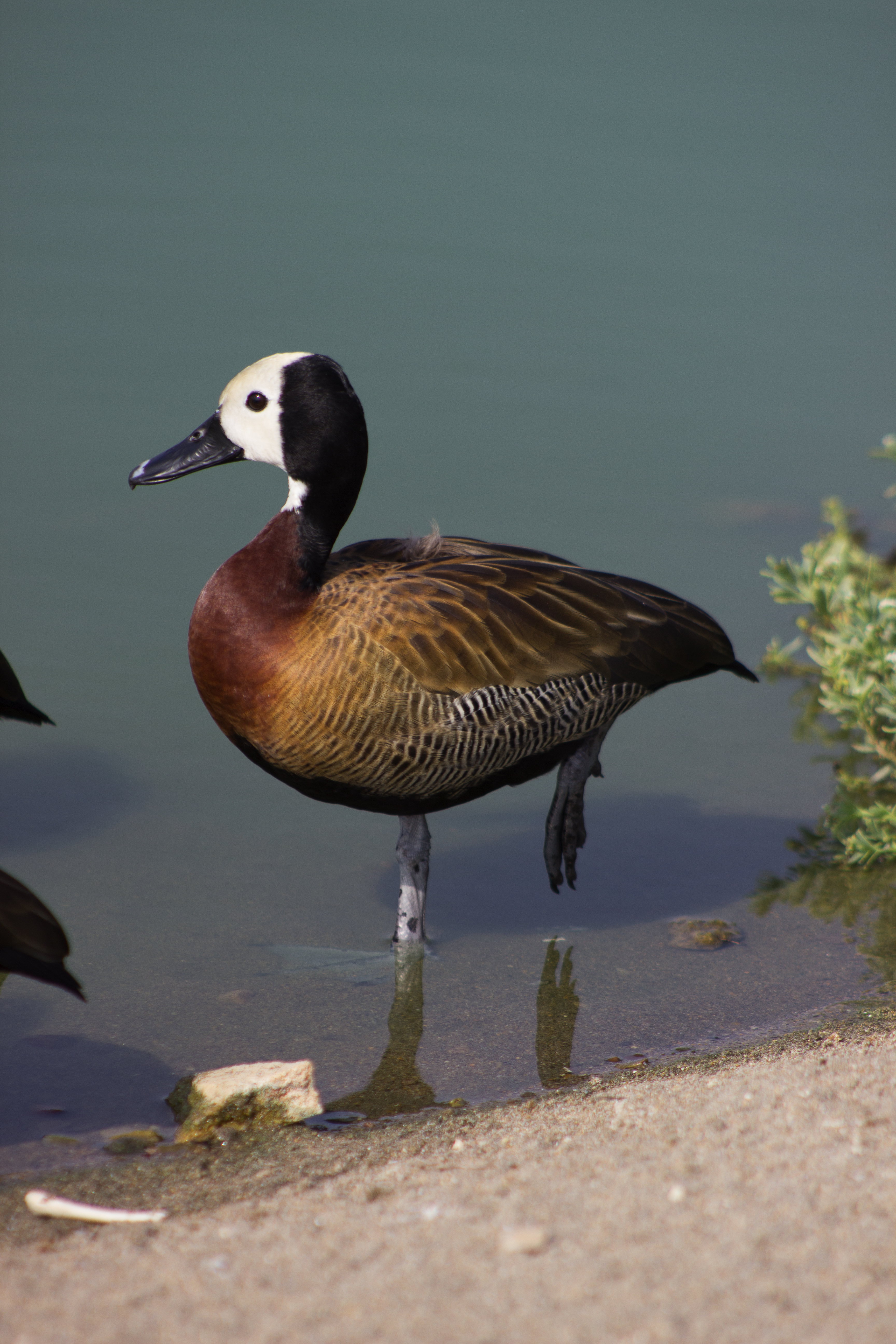 Dendrocygna viduata at Villa wetlands, Chorrillos, Lima, Peru